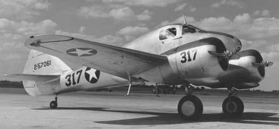 Photo of a Curtiss AT-9